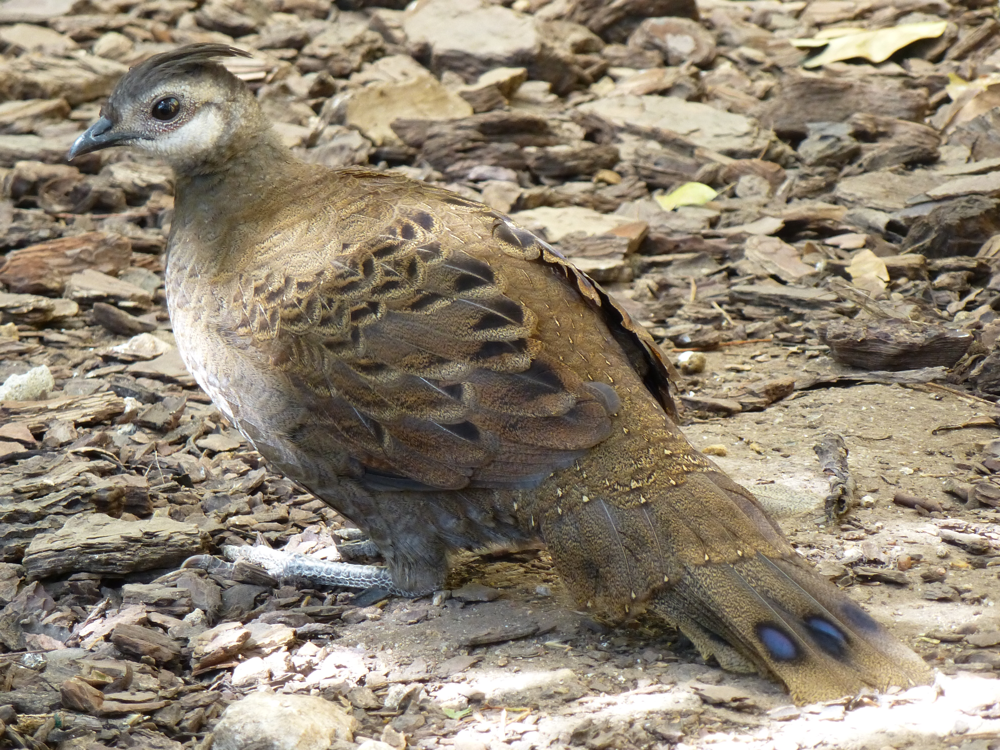 Palawan Peacock-Pheasant (Polyplectron napoleonis), female. Lisbon Zoo. Portugal